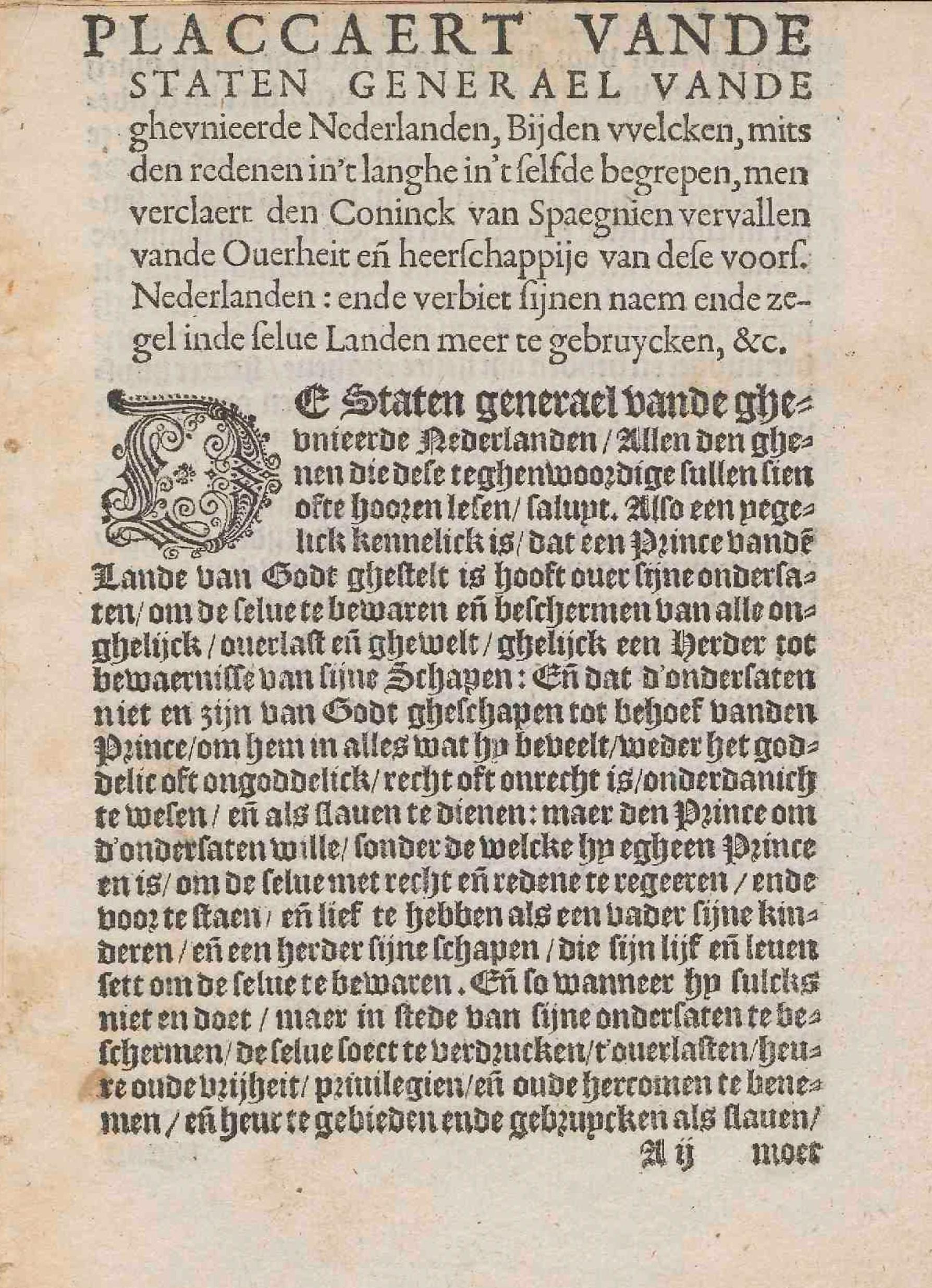 Placcaert van de Staten generael van de gheunieerde Nederlanden, byden welcken, midts den redenen in't langhe in't selfde begrepen, men verclaert den coninck van Spaegnien vervallen vande overheyt ende heerschappije van dese voors. Nederlanden ... Imprint: Tot Leyden : by Charles Silvius Place: Leiden 1581 Publisher Silvius, Charles Year 1581. Size 19 cm